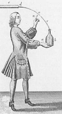 Musschenbroek (?) charging a Leyden jar, from Winkler's book "Die Stärke der electrischen Kraft des Wassers in gläsernen Gefäßen, welche durch den Musschenbrökischen Versuch bekannt geworden" (1746)